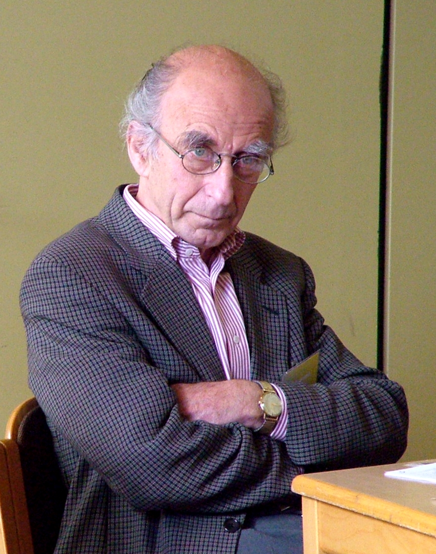 Hans Bakker, Africa coordinator of Universal Esperanto Association 1980-2001, Honorary President of World Esperanto Youth Organisation, october 2007